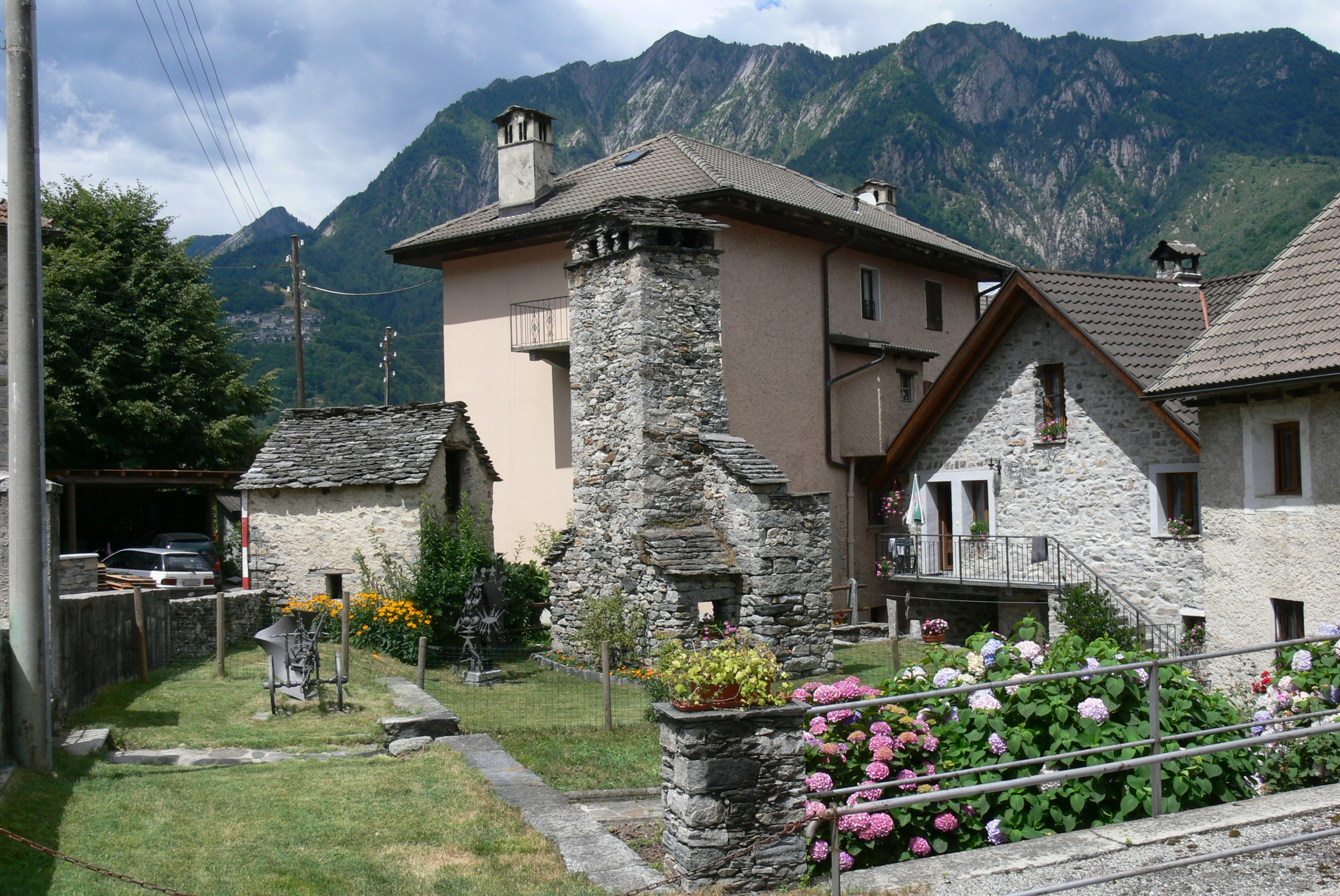 Palagnedra ( Locarno ). Houses in village centre.